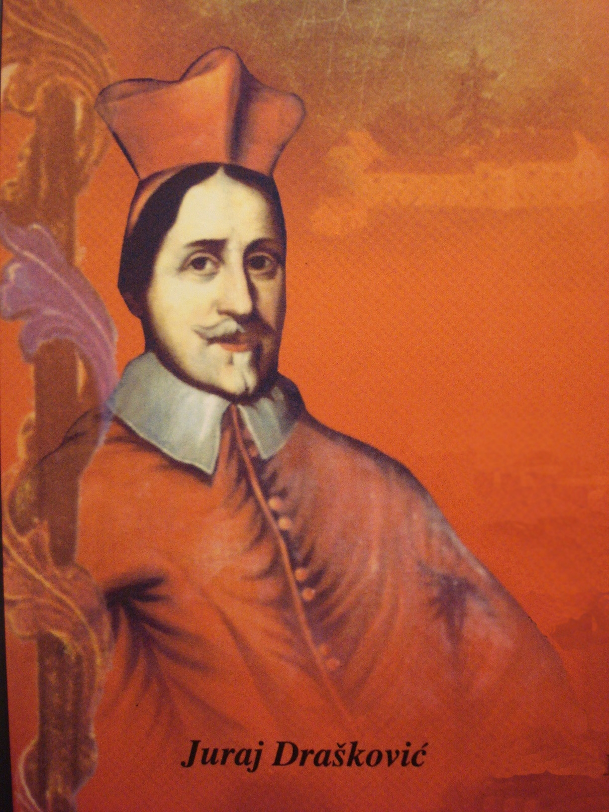 Juraj II Drašković (George II Drashkovich), (1525 - 1587), Catholic Bishop and Cardinal, Ban (Viceroy) of Croatia